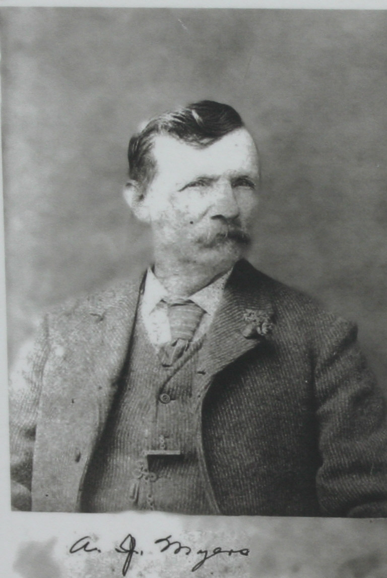 Image from a plaque outside the Oceanside city library